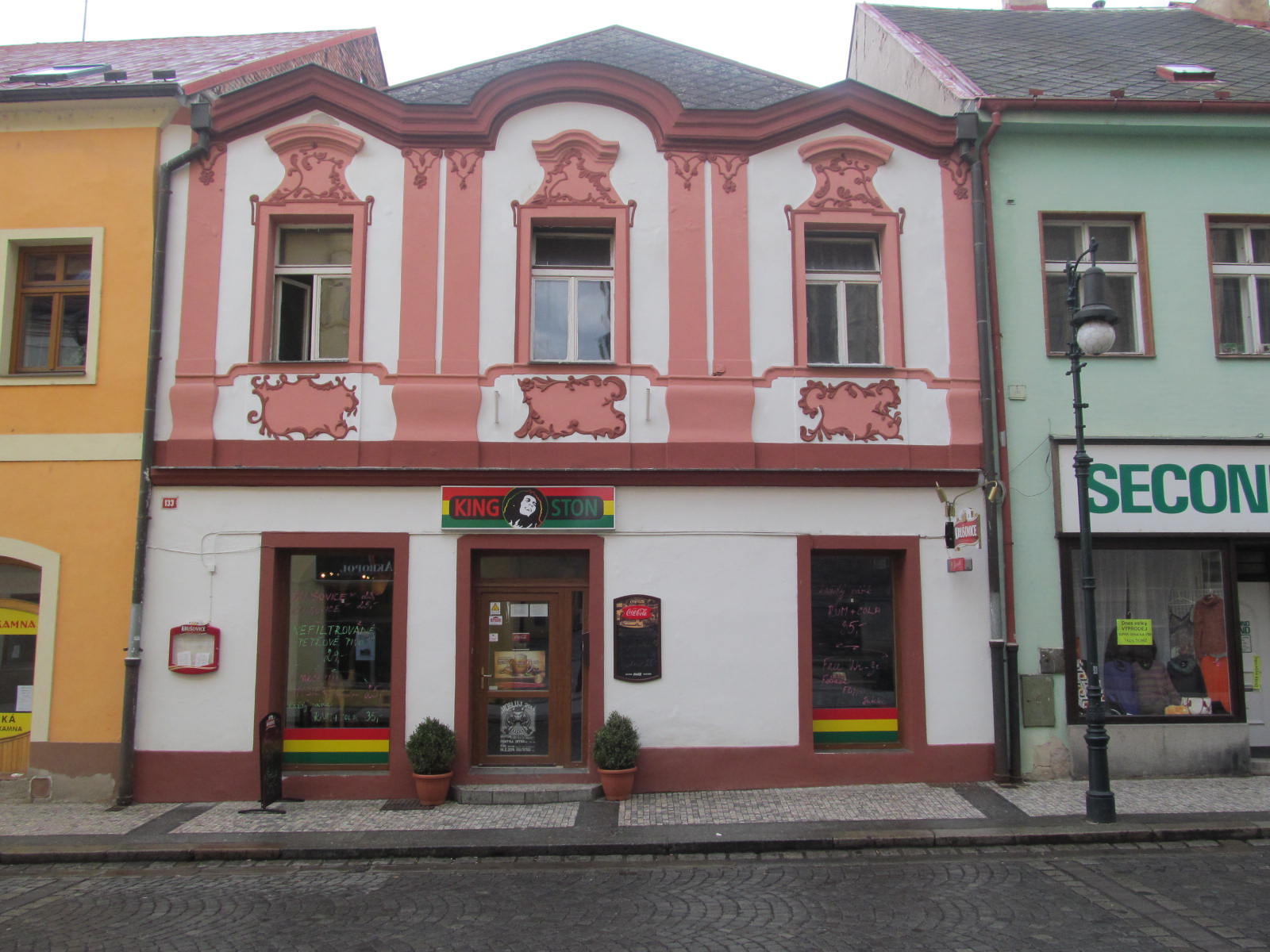 House Nr. 133 in Louny